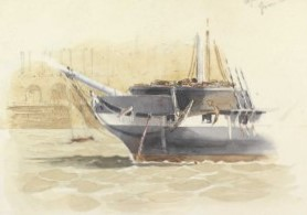 HMS Apollo at Sheerness. No. 5 of 36 (PAI0849 - PAI0884). This was drawn while Mends was first lieutenant of the 'Trafalgar' at Sheerness. Detail at Sheerness - Medway / Dec 1850', showing a watercolour study of the beakhead and port side focastle of a frigate, with a small sailing boat and a dockyard building with arches at ground level above a stone quay behind, inscribed 'Apollo's bow / from Cabin Port [of the] Trafalgar'. This 38-gun ship had been on harbour service since 1846, presumably at Sheerness when Mends saw her.